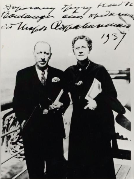 Igor Stravinsky (1882-1971) and Nadia Boulanger (1887-1979) on board a transatlantic steamer in 1937.